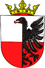 Coat of arms of Czech market town Zlonice Česky: Znak městyse Zlonic. Blason: Ve stříbrno-červeně děleném štítě levá půle černé orlice s celou hlavou otočenou doprava a s červeným jazykem. Ref = REKOS